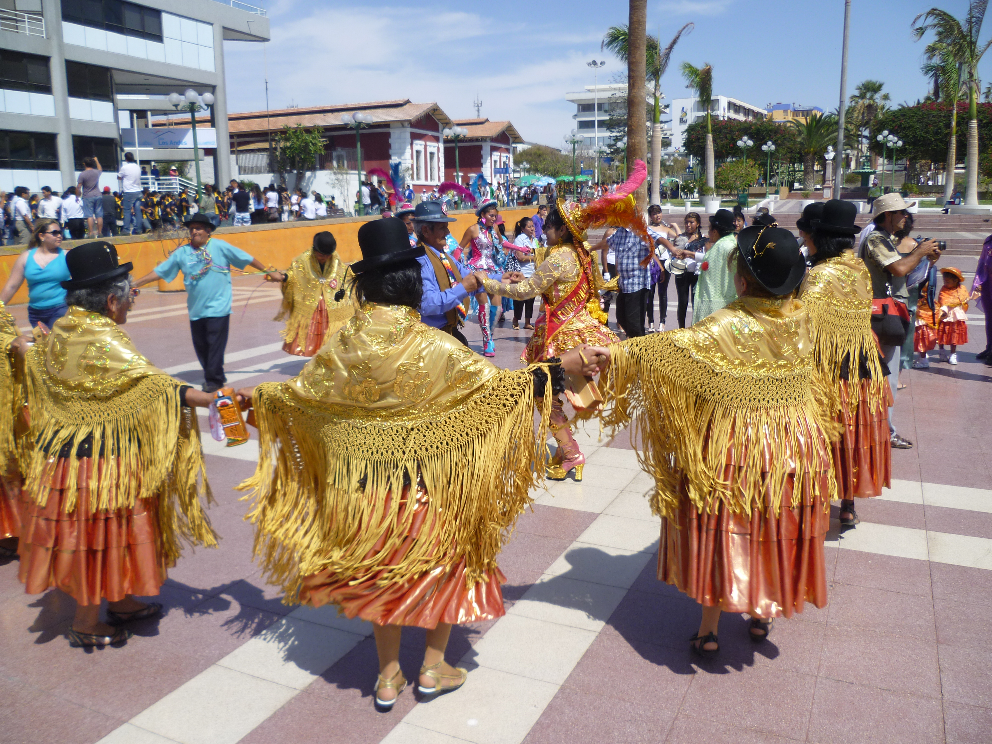 Convite del Carnaval Andino 2012